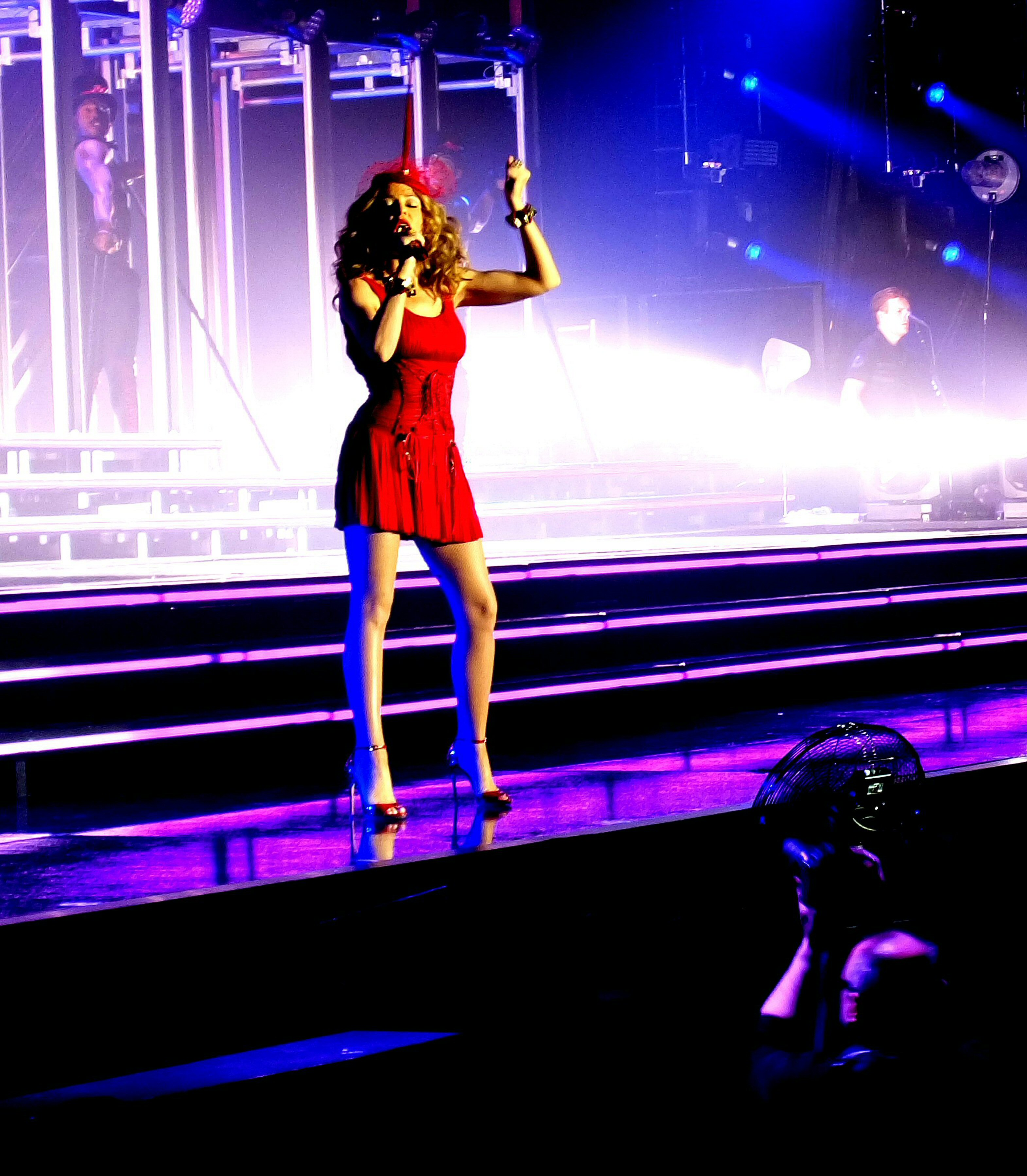 Kylie Minogue performs her Kiss Me Once Tour at Bercy, Paris, November 2014